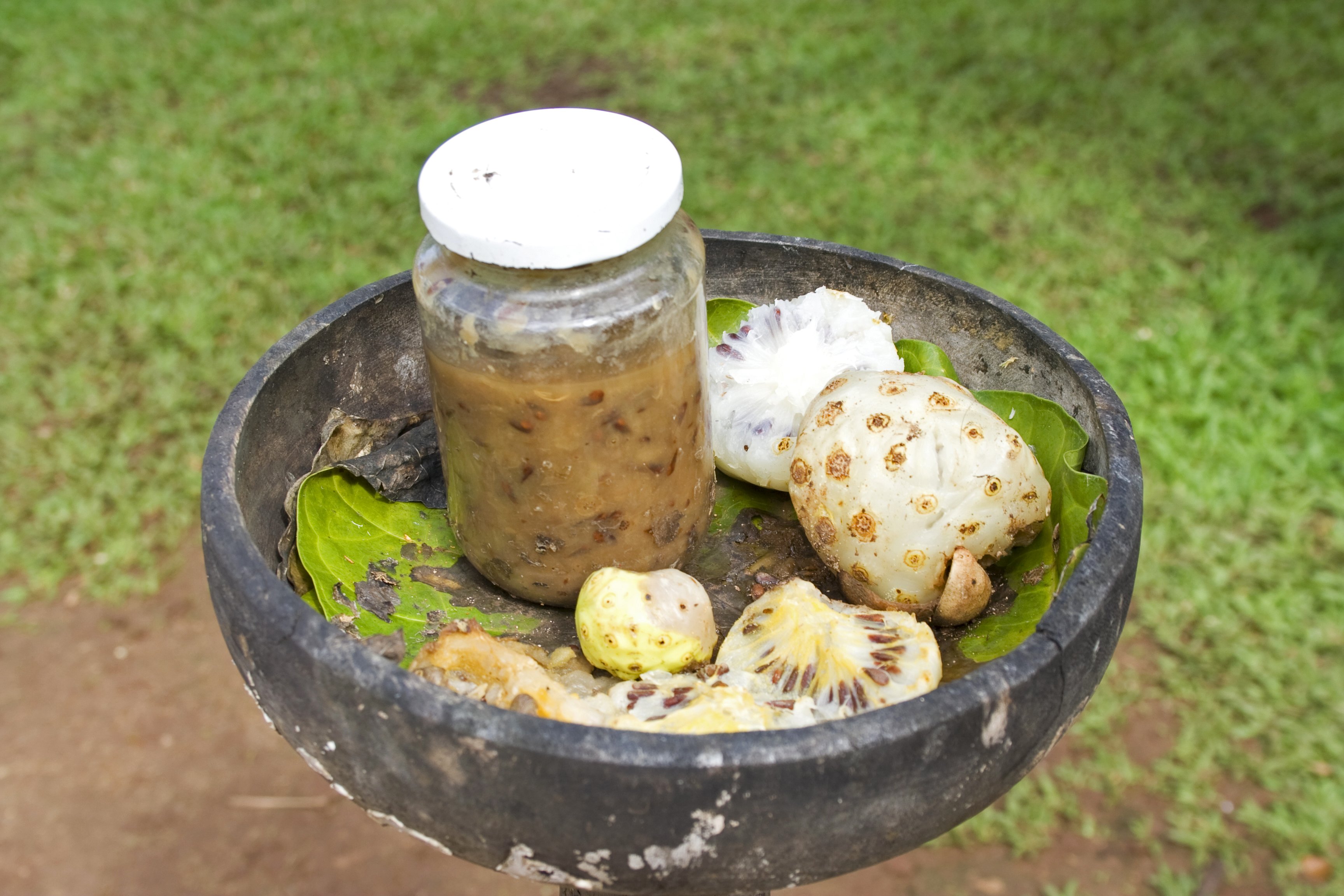 Picture of noni fruit and juice.